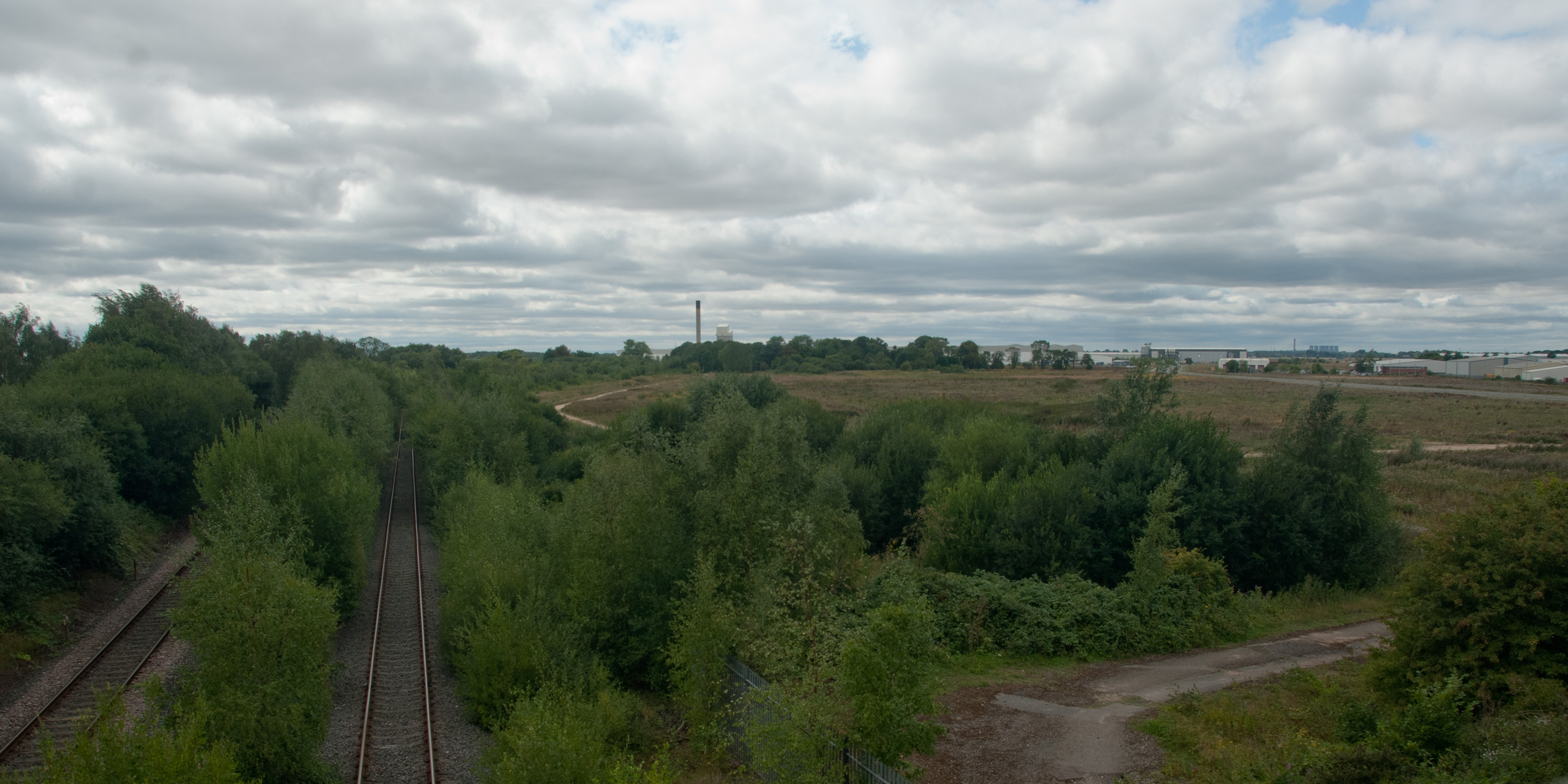 The location of the Siemens plant in Goole near to Junction 36 on the M62. The line on the left is for Whitley Bridge, the line next to it is the siding for Guardian Glass. The flat space beyond the trees in the middle ground is where the plant will be located